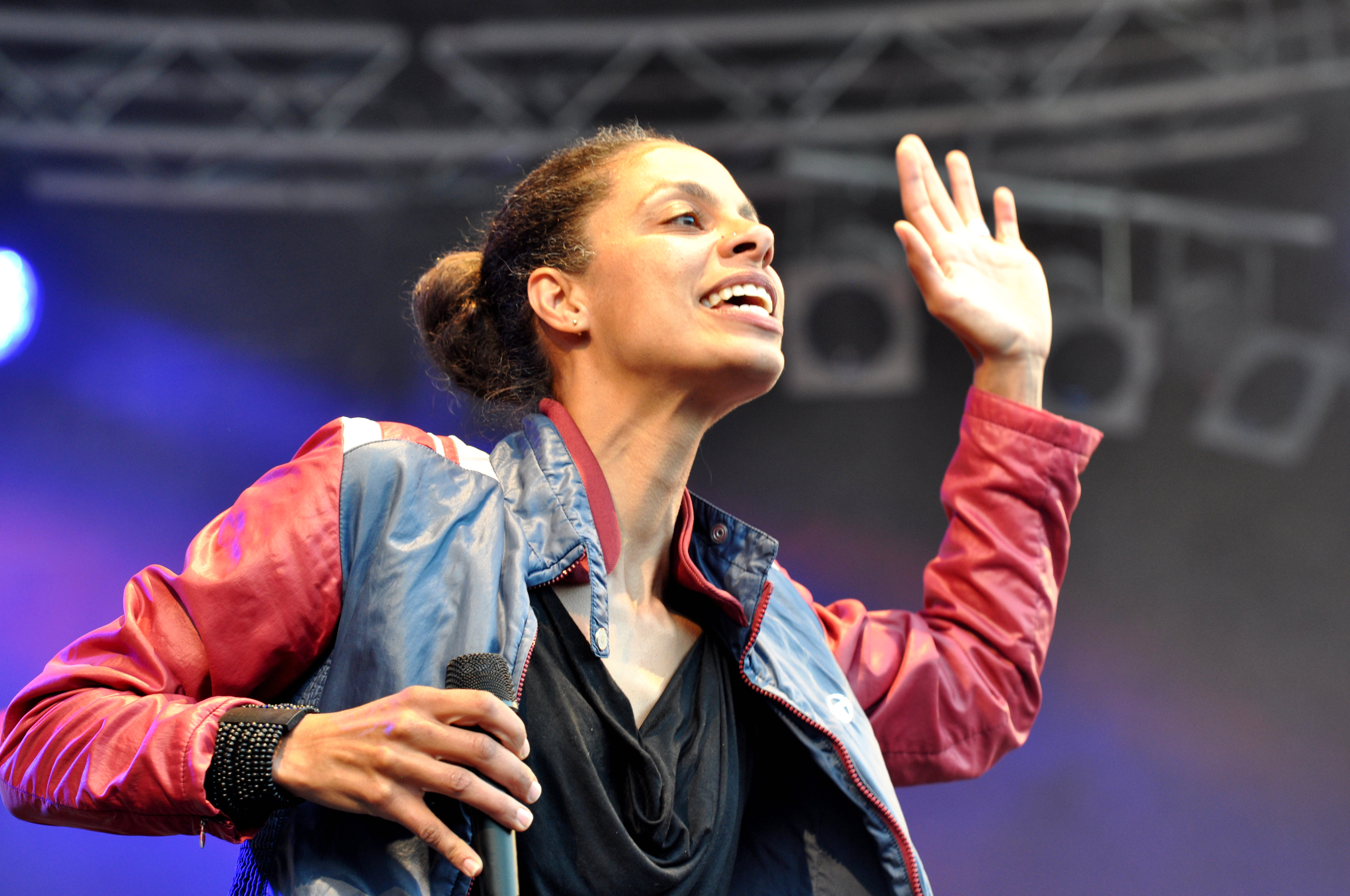 Stoppok, Astrrid North, 40th music festival 'Bardentreffen' 2015 at Nuremberg, Germany Festivalsommer This photo was created with the support of donations to Wikimedia Deutschland in the context of the CPB project "Festival Summer".